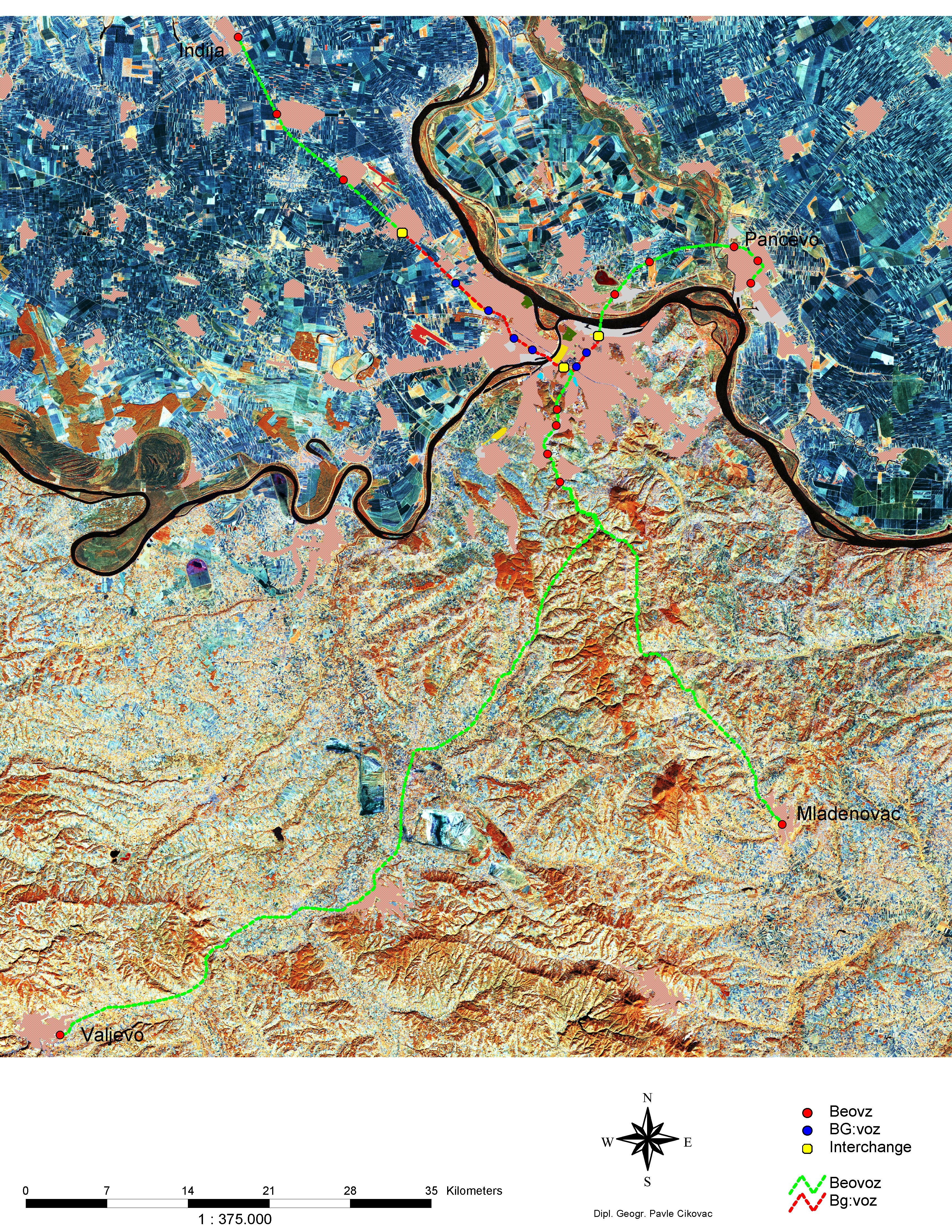 commuter rail network in belgrad, voz, beovoz